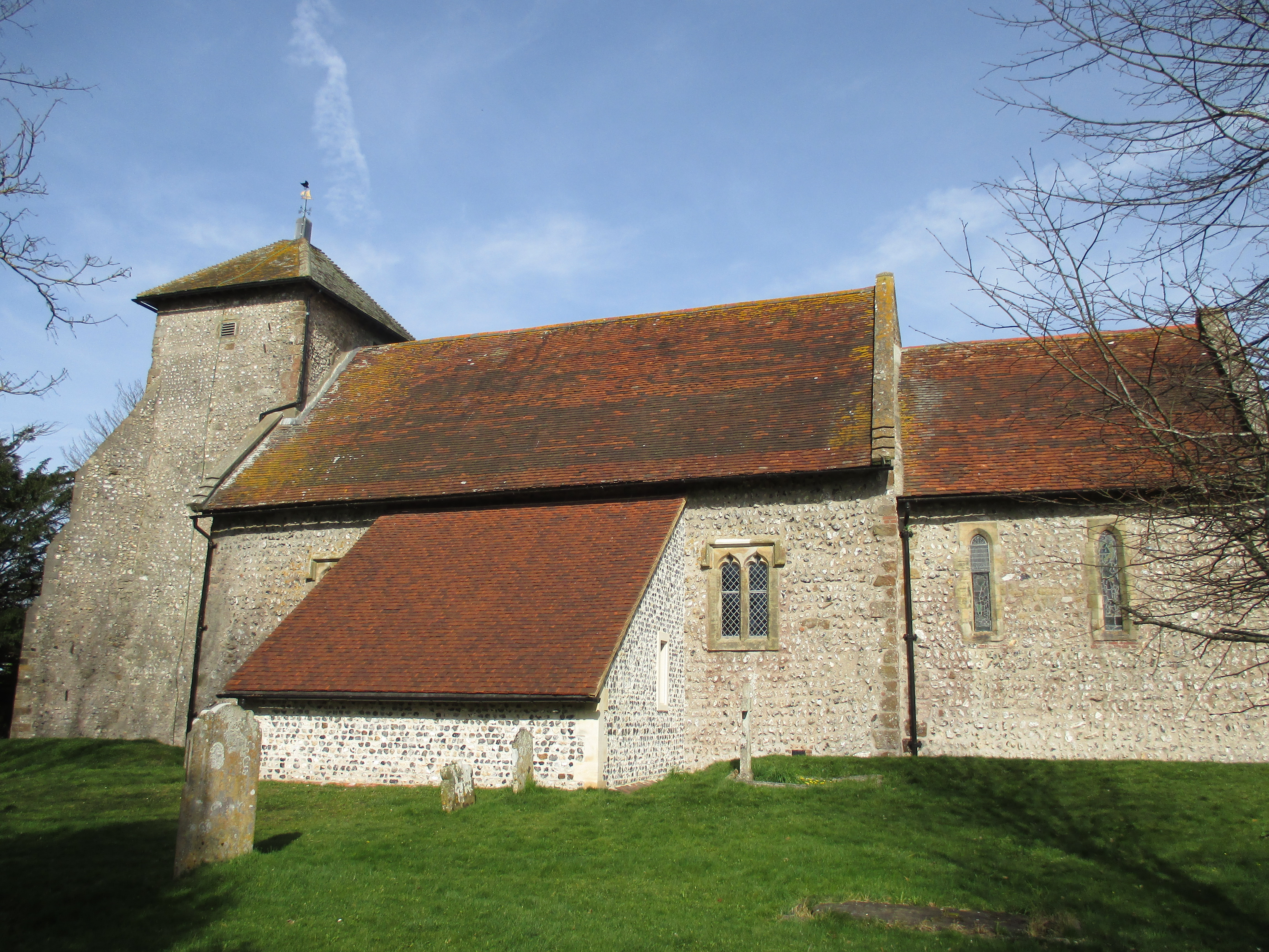 The Church of the Transfiguration, Pyecombe, West Sussex, seen from the south.